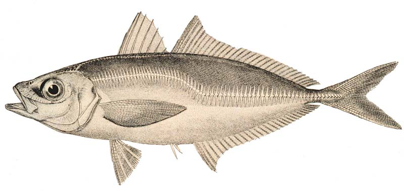 Bigeye scad (Selar crumenophthalmus). From Great Lakes Environmental Research Laboratory